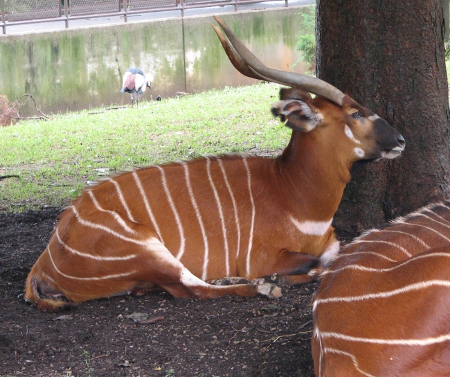 Bongo - Tragelaphus eurycerus isaaci at Louisville Zoo in Kentucky